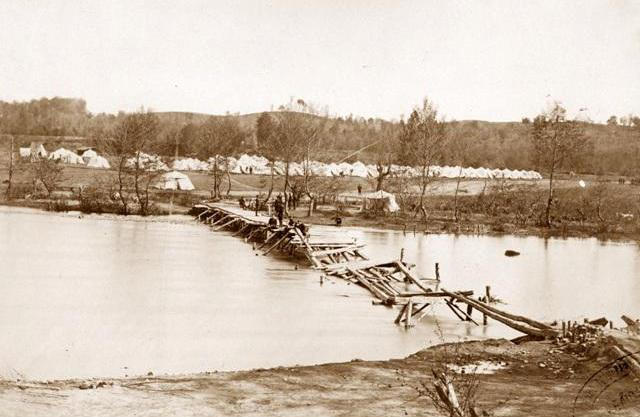 D. Yermakov. "The Kintrishi River and the camp of the 2nd Rifle Battalion at Tsikhisdziri", Russo-Turkish war of 1877-1878